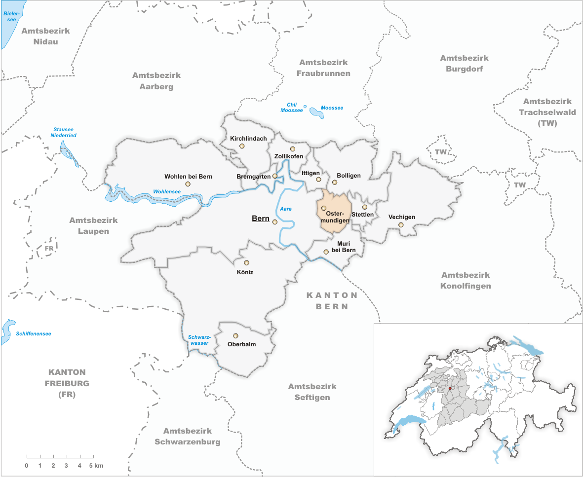 Municipality Ostermundigen